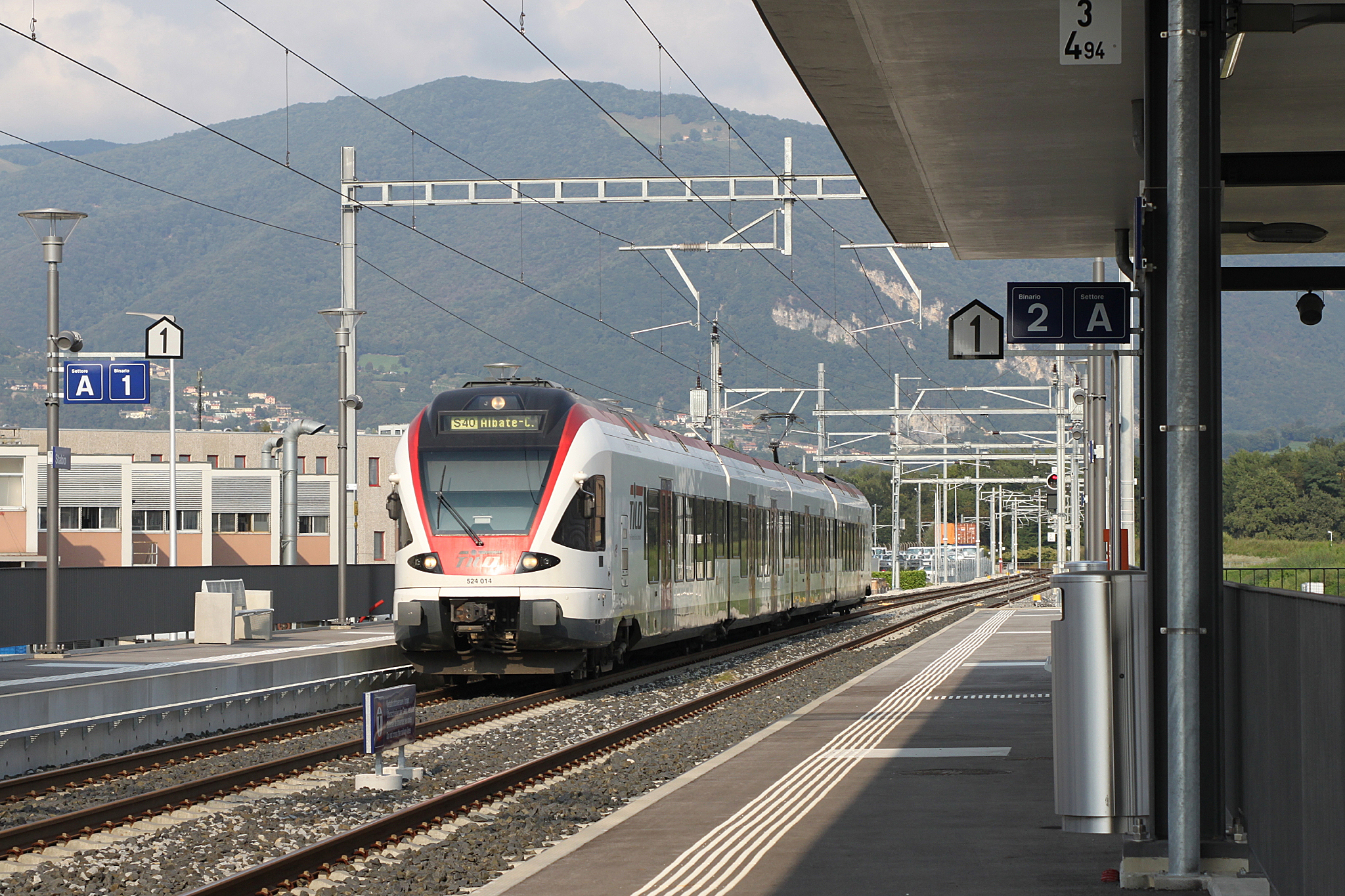 SBB CFF FFS RABe 524 014 arriving at Stabio train station as S50 25577 from Mendrisio.